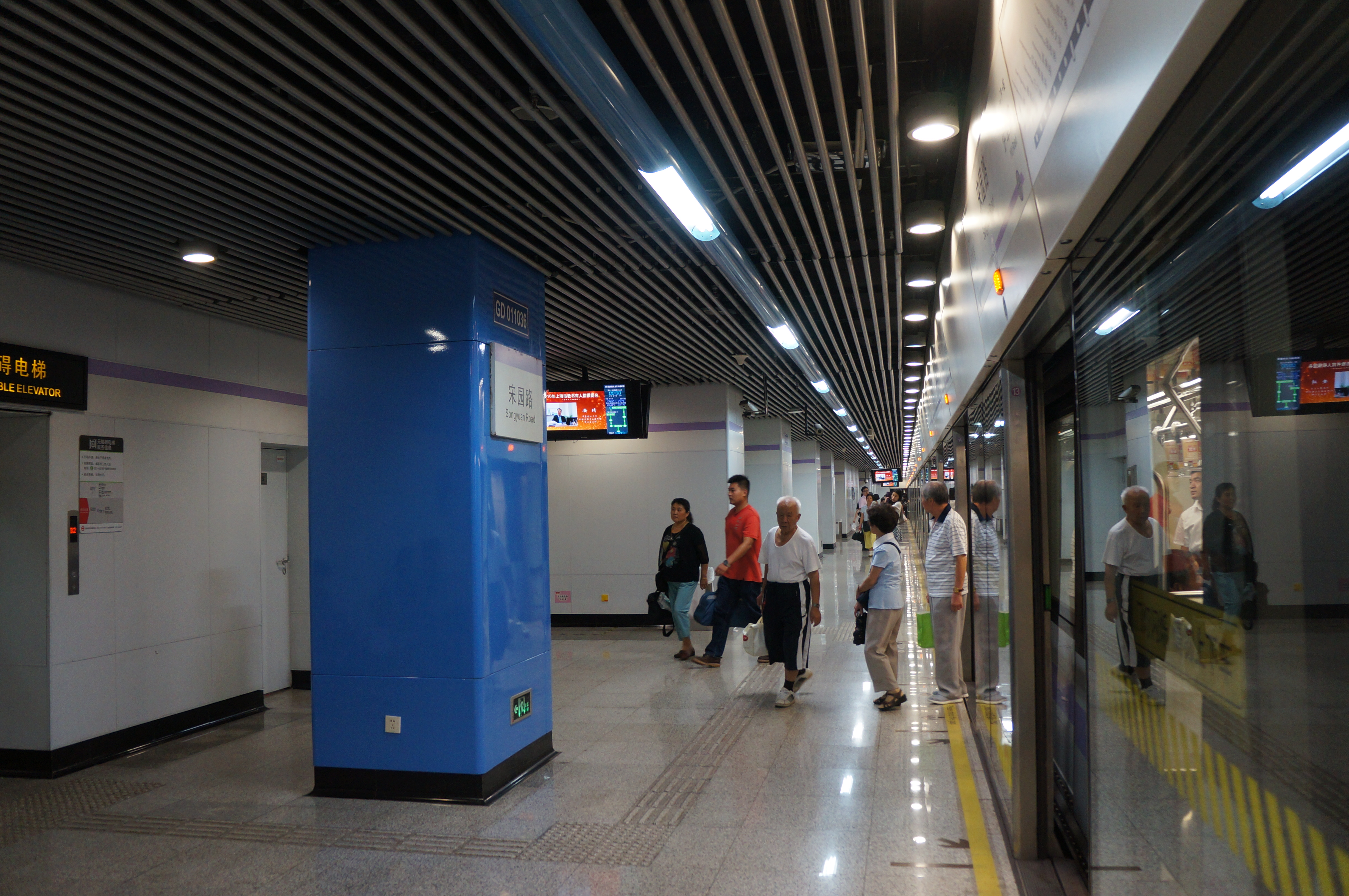 201609 Platform for L10 of Songyuan Road Station